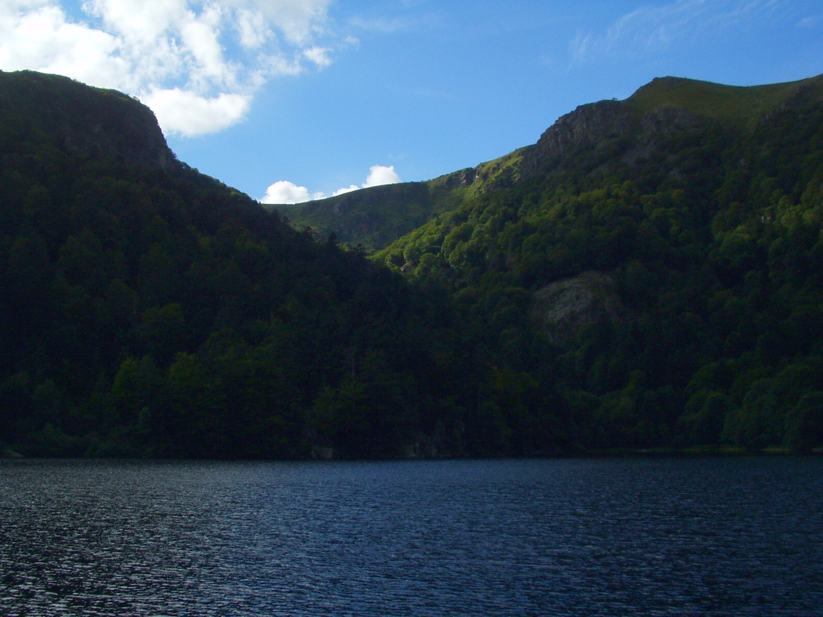 Description = Little lake in Vosges mountains, France (Lac de Schiessrothried) Author = Philipp Hertzog